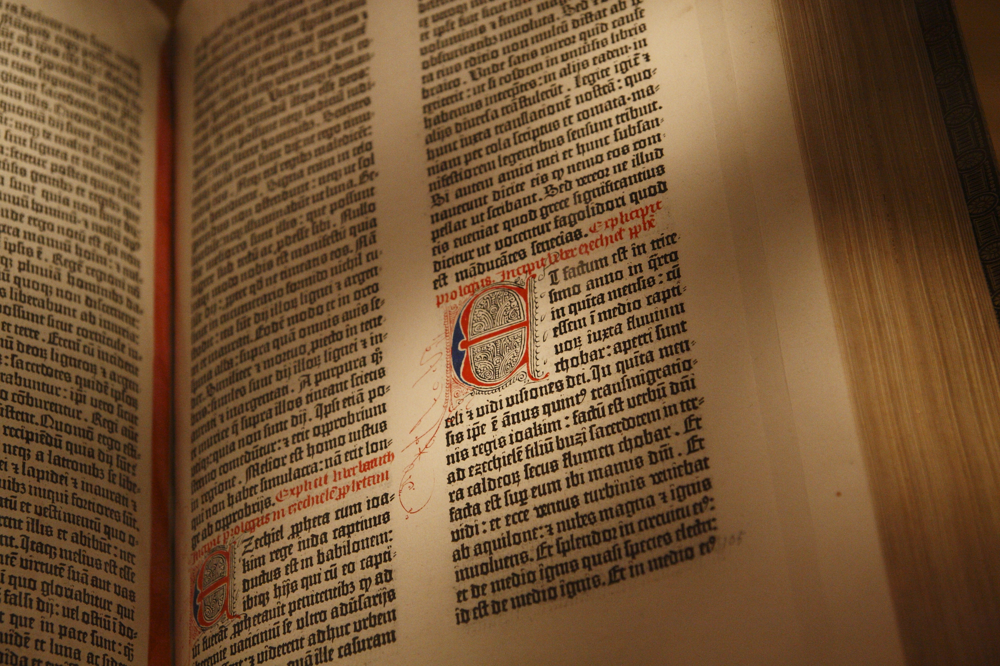 Gutenberg Bible on display at the New York Public Library